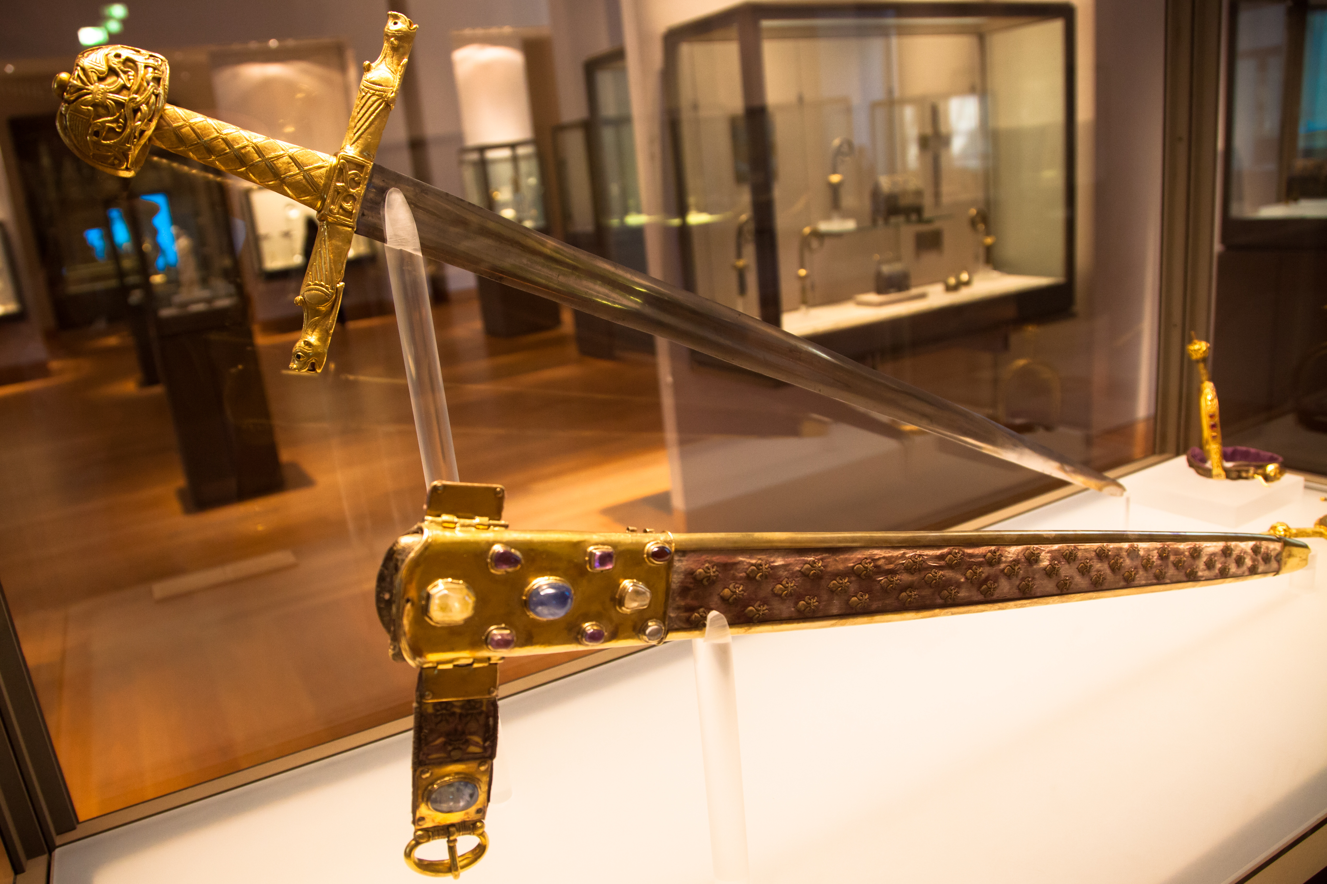 "La Joyeuse" - The French Coronation Sword